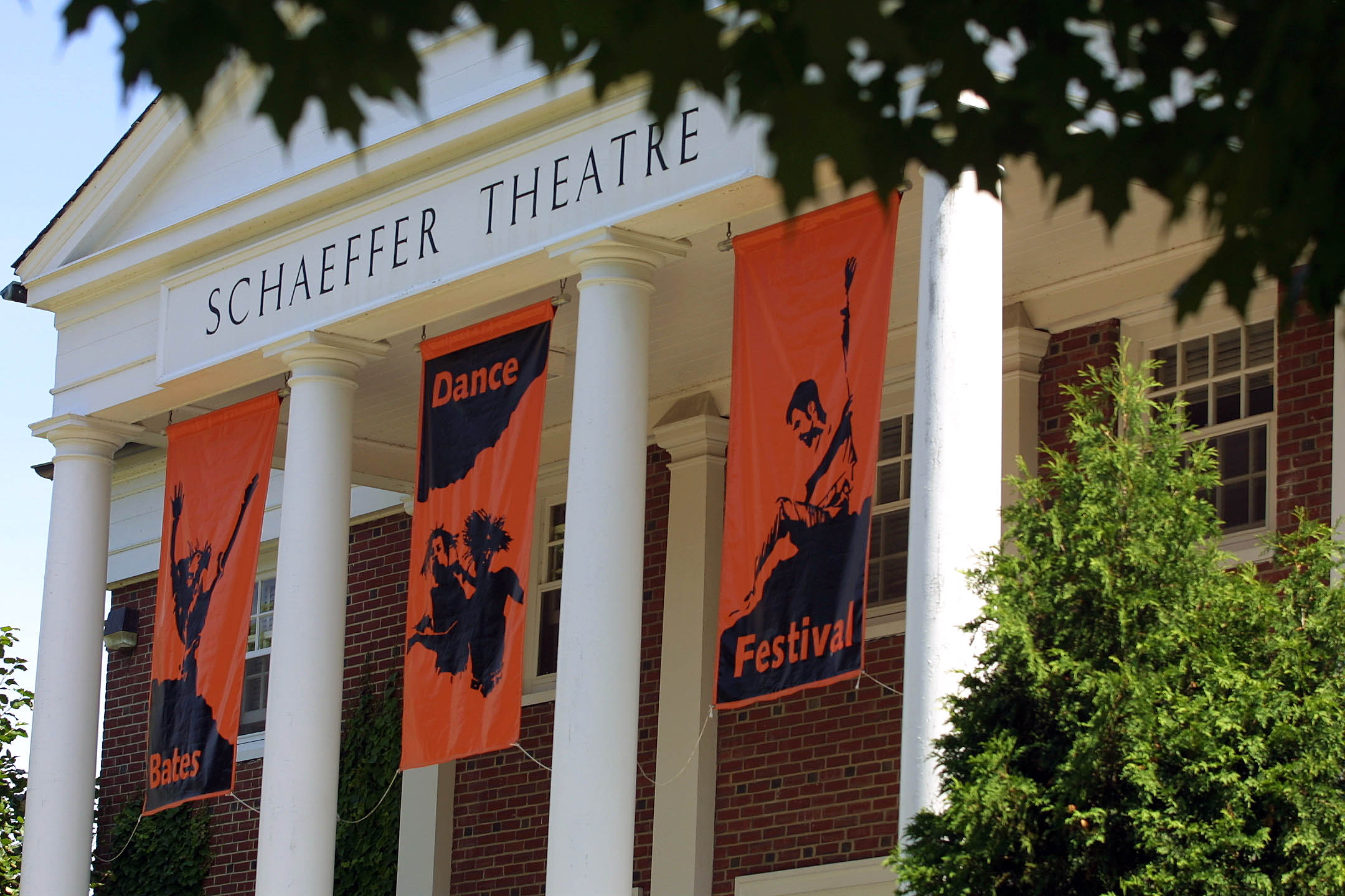 Schaeffer Theatre